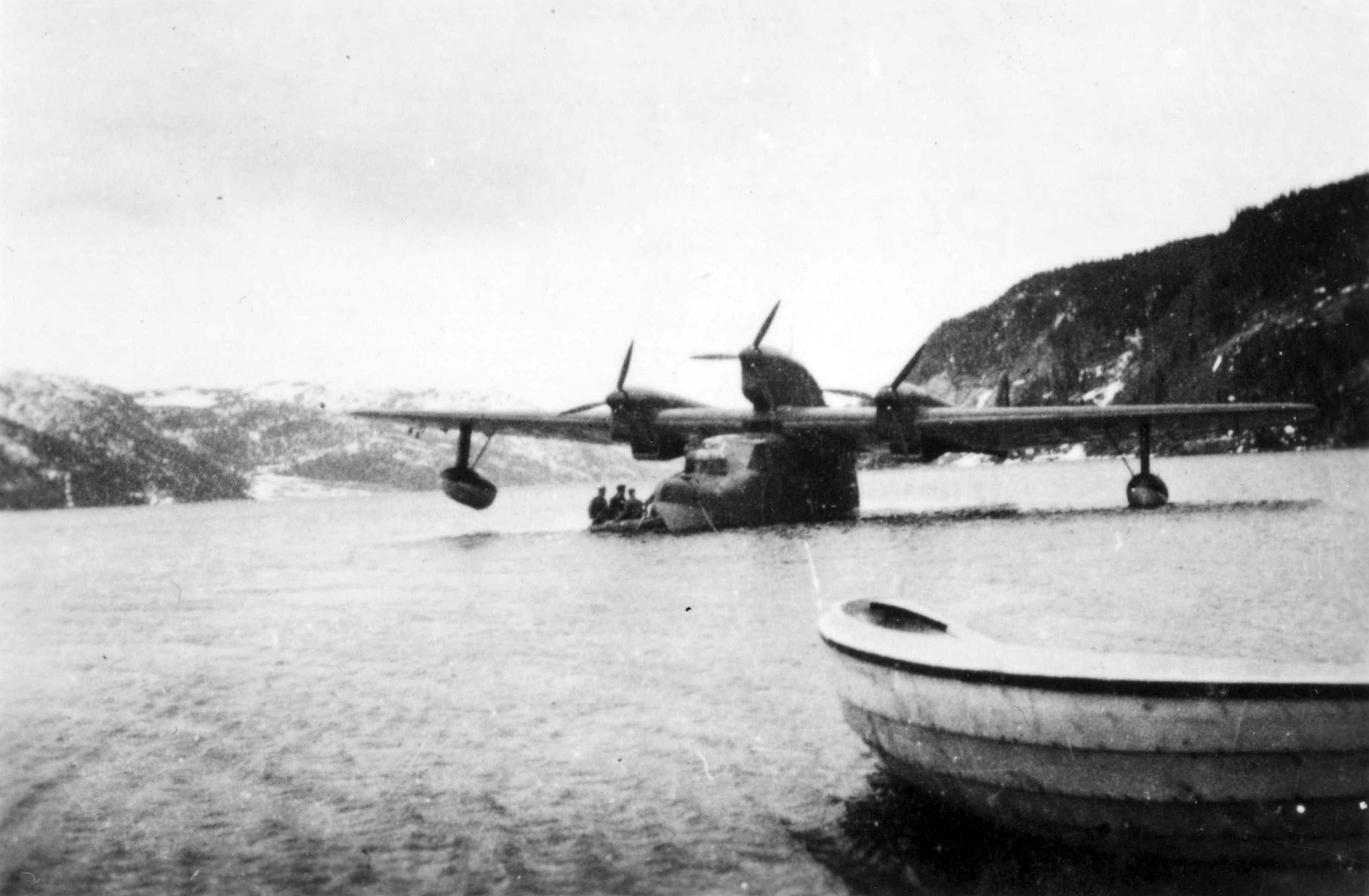 A German Blohm&Voss BV 138 A-1 flying boat at Hemnesfjord, Norway, 13-14 May 1940. It was later but was shot down by a British destroyer and sank a little south of Finneidfjord-Korgen.